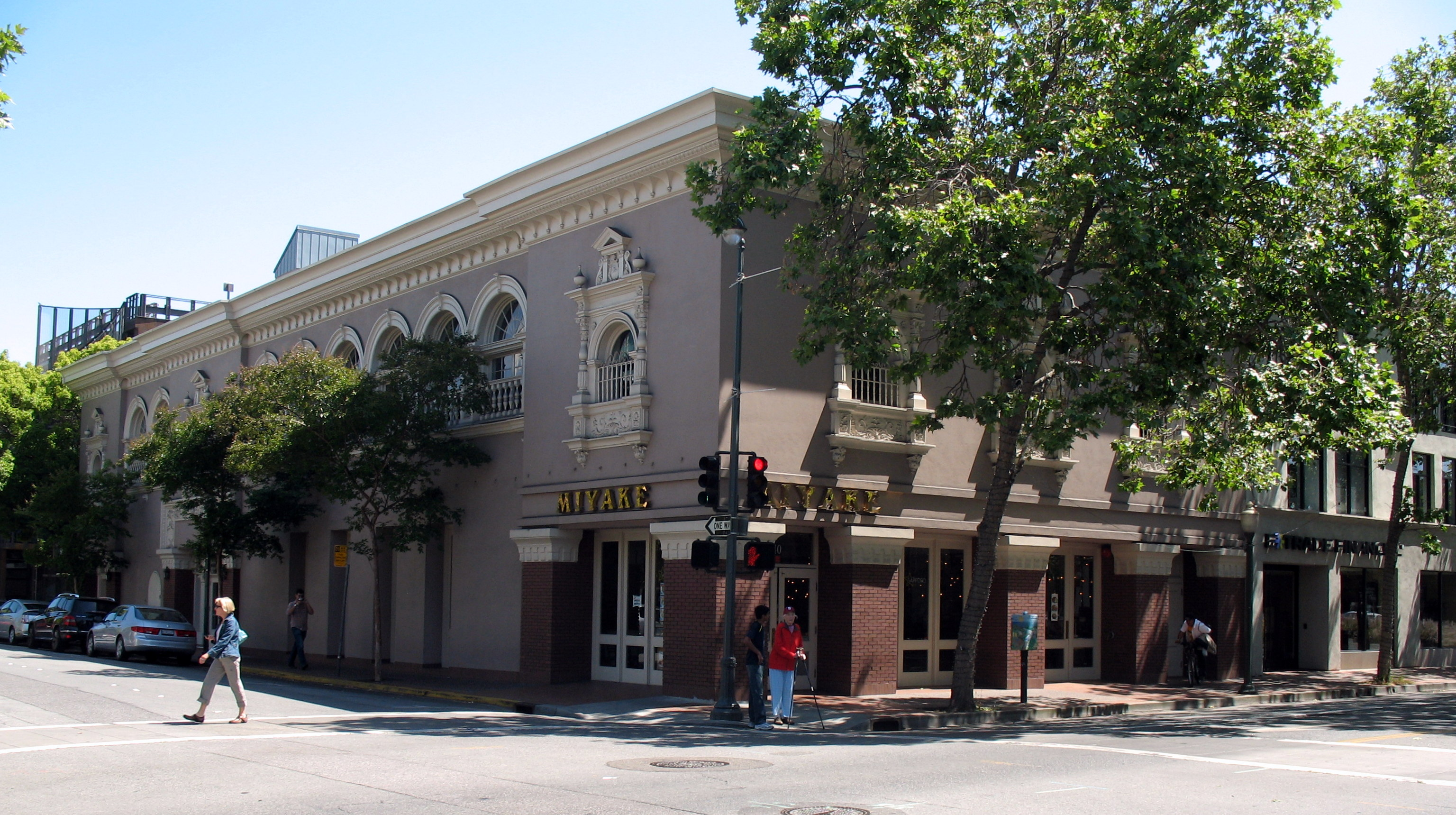 National Register of Historic Places listings in Santa Clara County, California Fraternal Hall Building, 140 University Ave., Palo Alto, CA